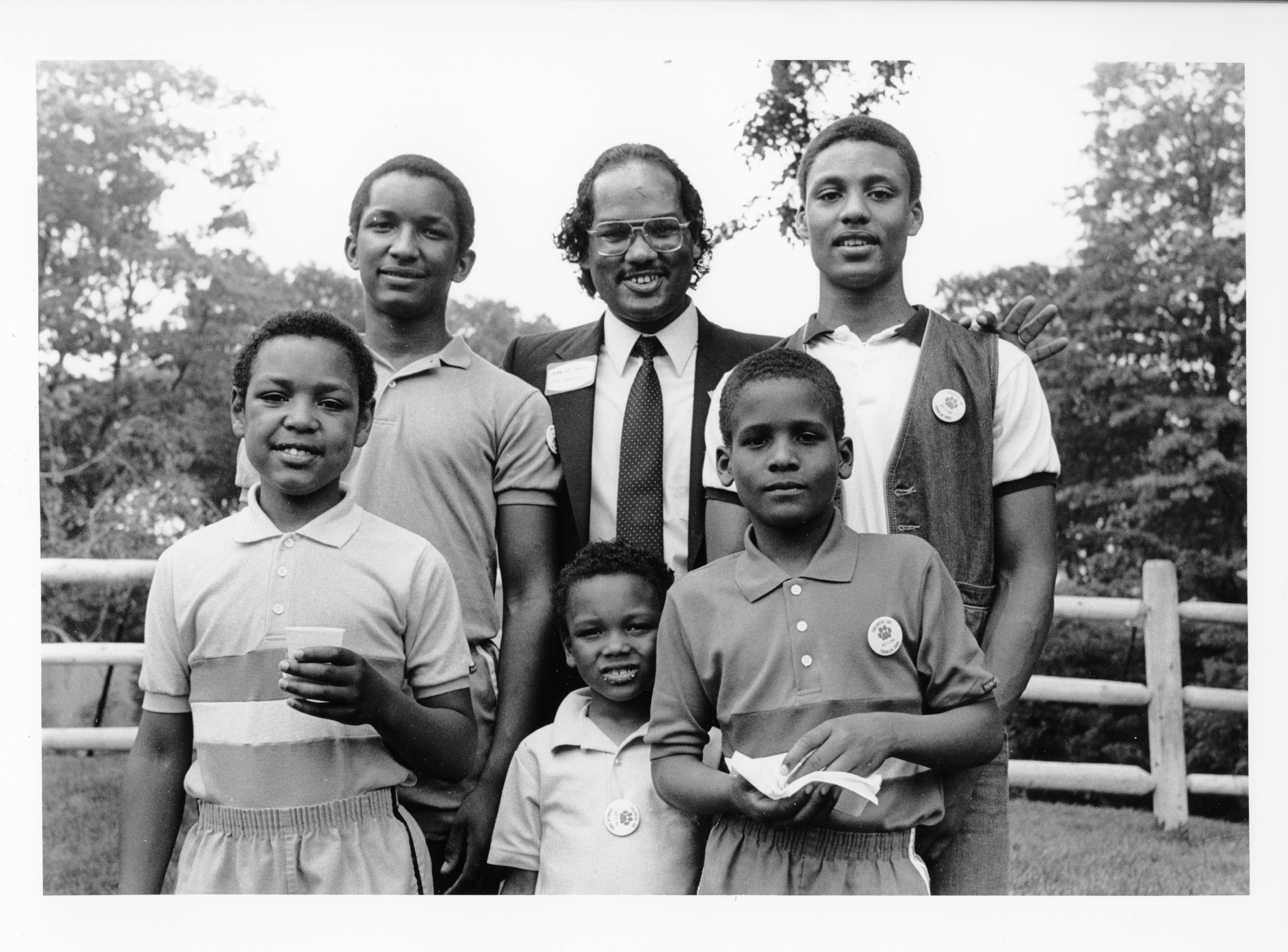 Title: Councilor Charles Yancey with children at Franklin Park Creator: Mayor's Office - City Photographer Date: circa 1984-1987 Source: Mayor Raymond L. Flynn records, Collection #0246.001 File name: RF_0577 Rights: Copyright City of Boston Citation: Mayor Raymond L. Flynn records, Collection #0246.001, City of Boston Archives, Boston